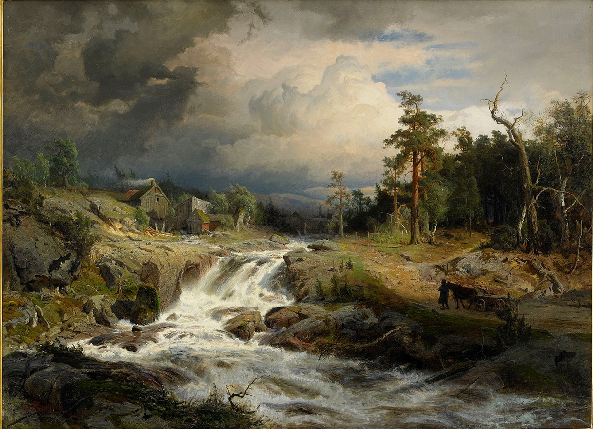 Gustaf Rydberg (1835-1933). Motiv från Wermland, 1865. Signerad och daterad G. Rydberg 1865. Olja på duk, 64 x 86 cm.